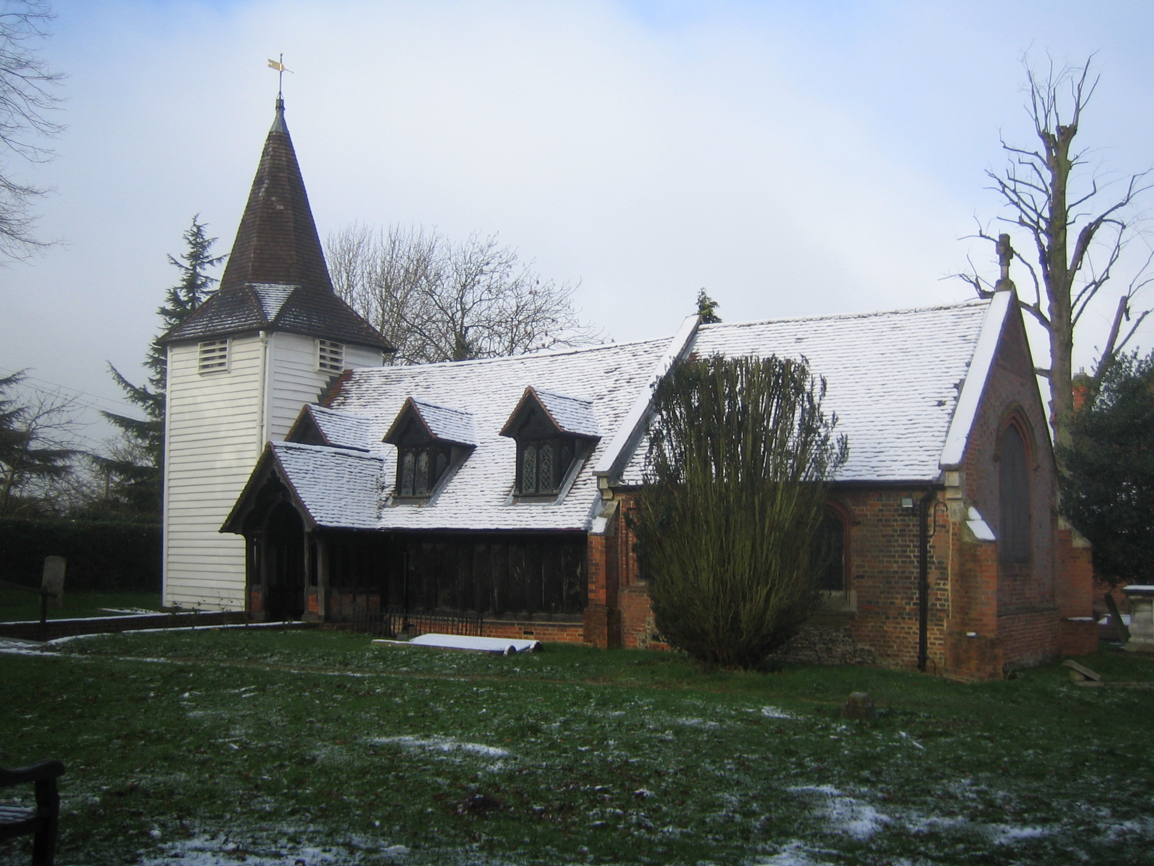 St Andrew's parish church, Greensted,Essex, seen from the southeast in light snow